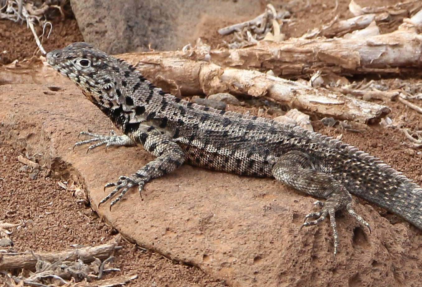 Galápagos Lava Lizard (Microlophus albermarlensis barringtonensis) in Santa Fe Island, Galápagos National Park, Ecuador